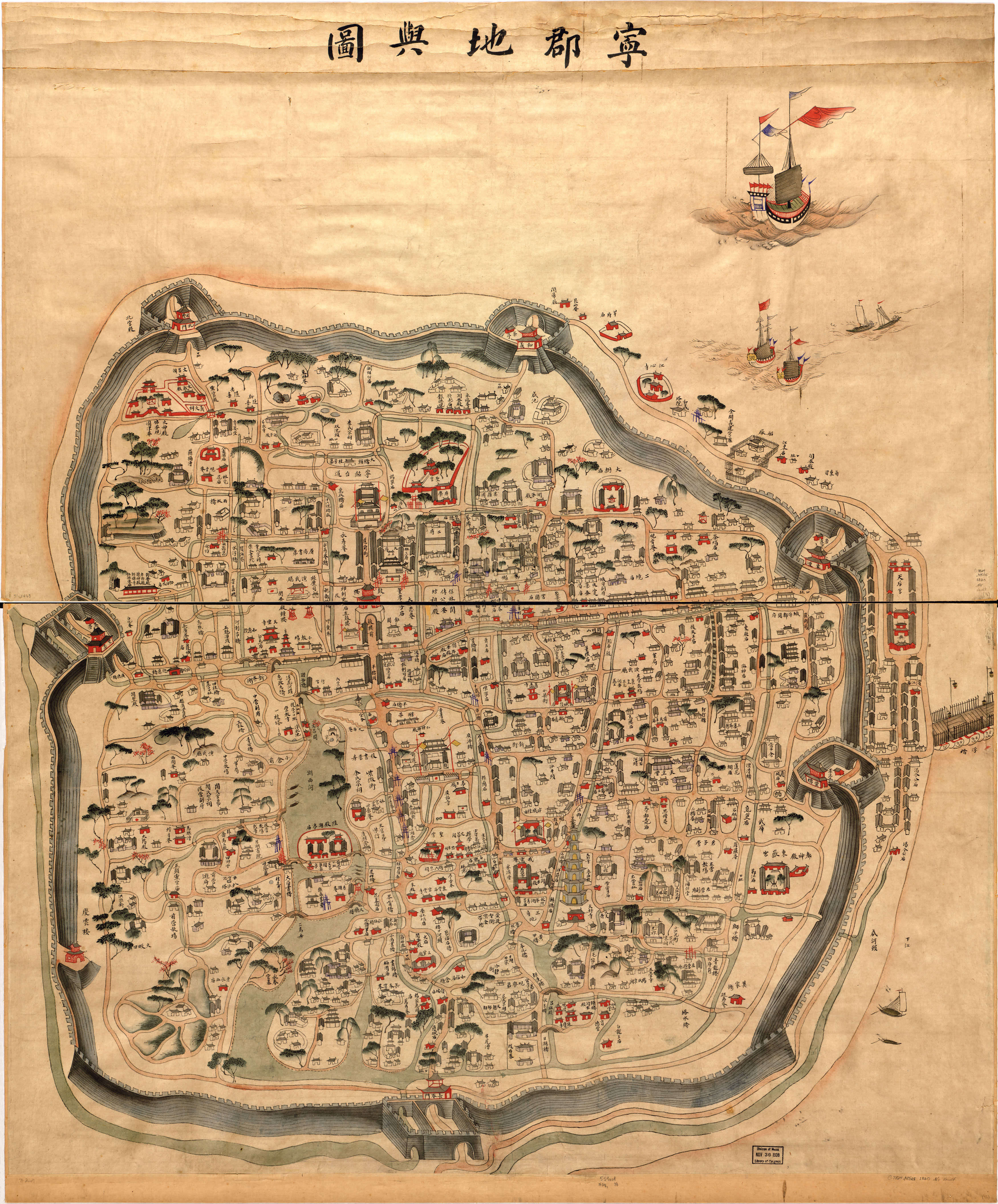 Ningbo old map (between 1796 and 1820)